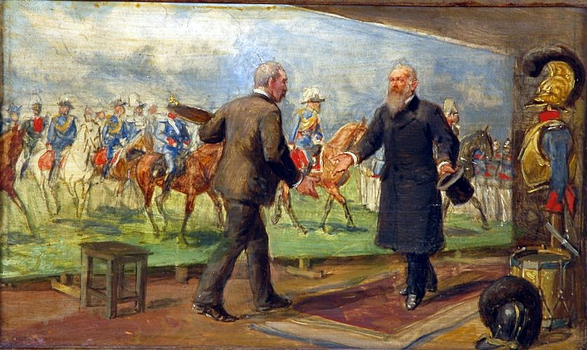 Prinz Luitpold besucht den Maler Louis Braun, 1896 bei Fertigung seines Großgemäldes "Parade auf dem Oberwiesenfeld", Aquarell